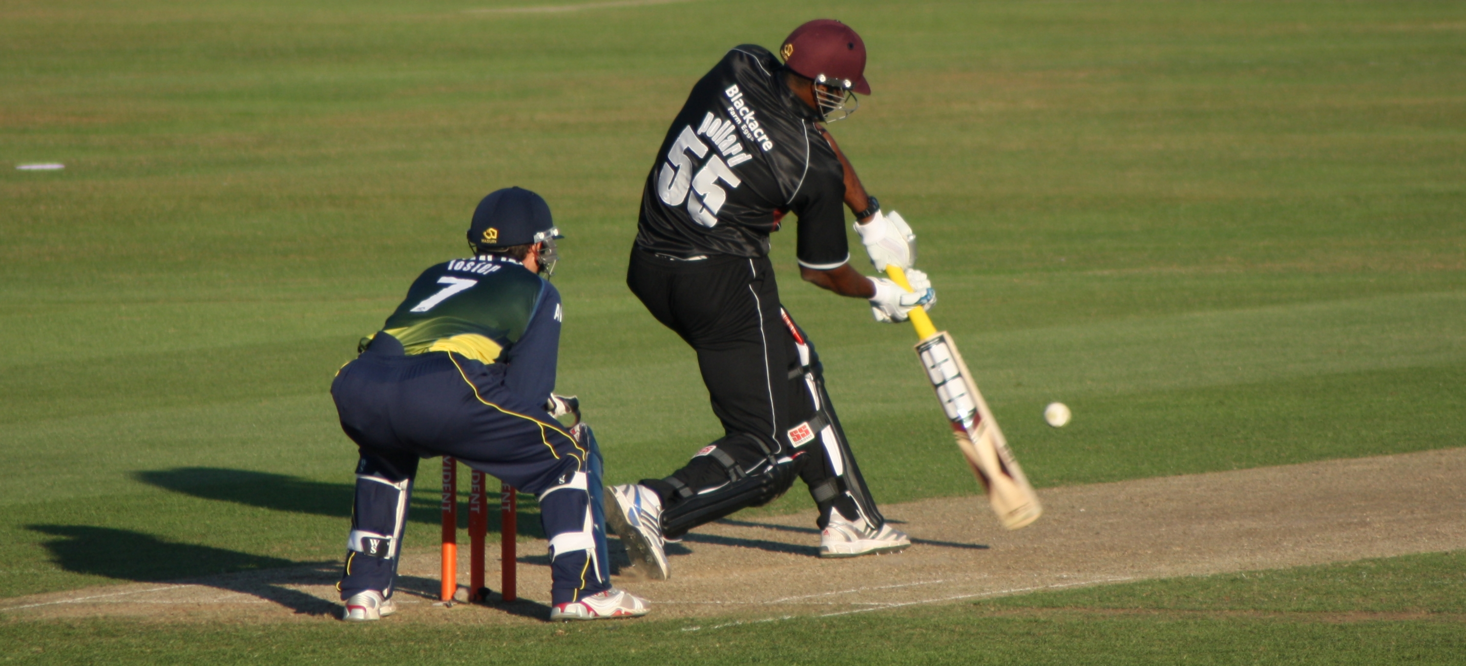 Kieron Pollard hitting a six for Somerset in a FPt20 match against Essex at the County Ground, Taunton.